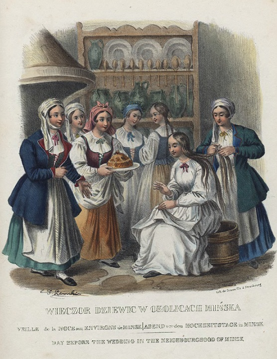 "Day before the wedding in the neighbourhood of Minsk"